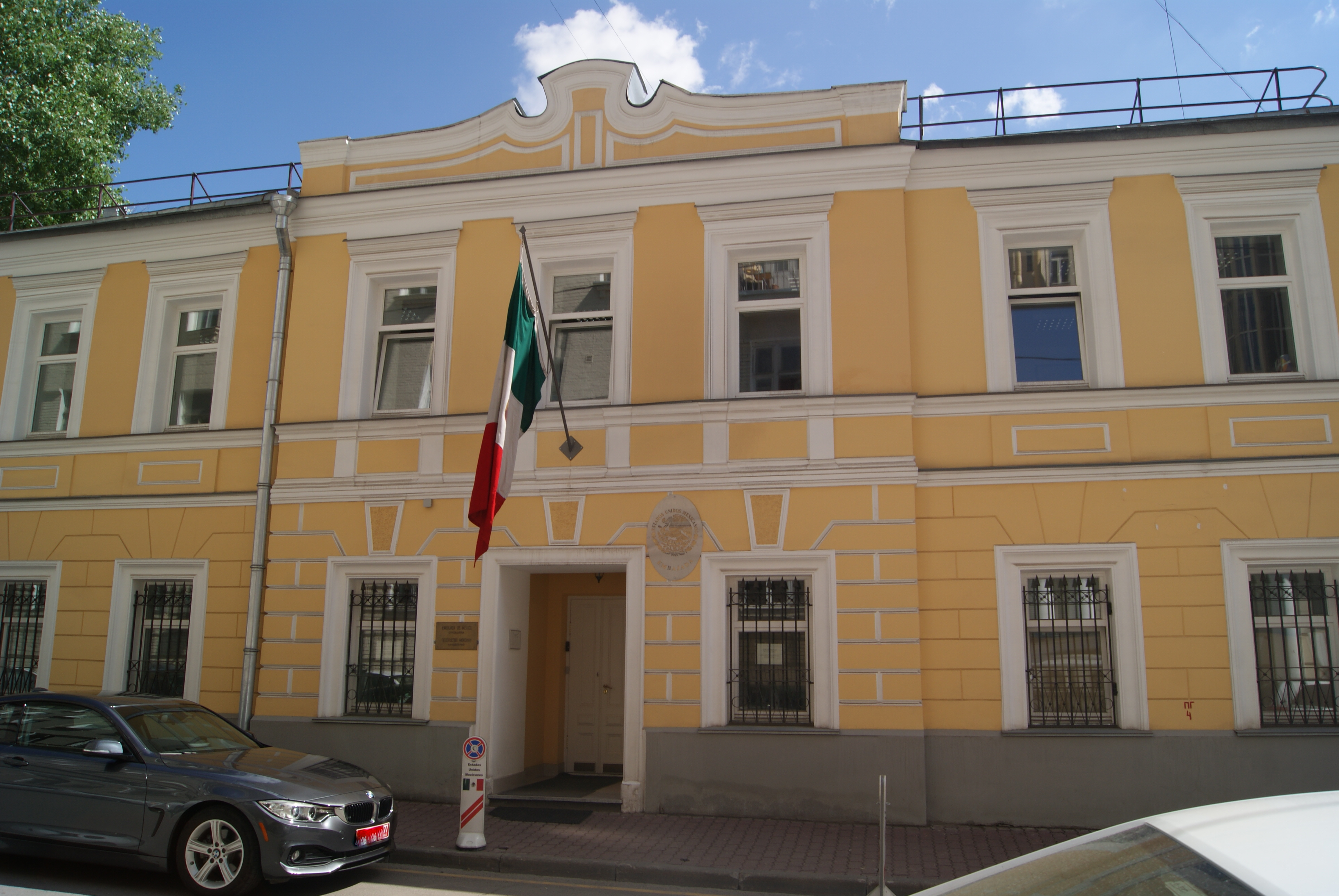 Moscow, Kalashny Lane, 12. Back in 2015, the building housed the Embassy of Mexico to Russia, but they have since moved back to Bolshoy Levshinsky 4.